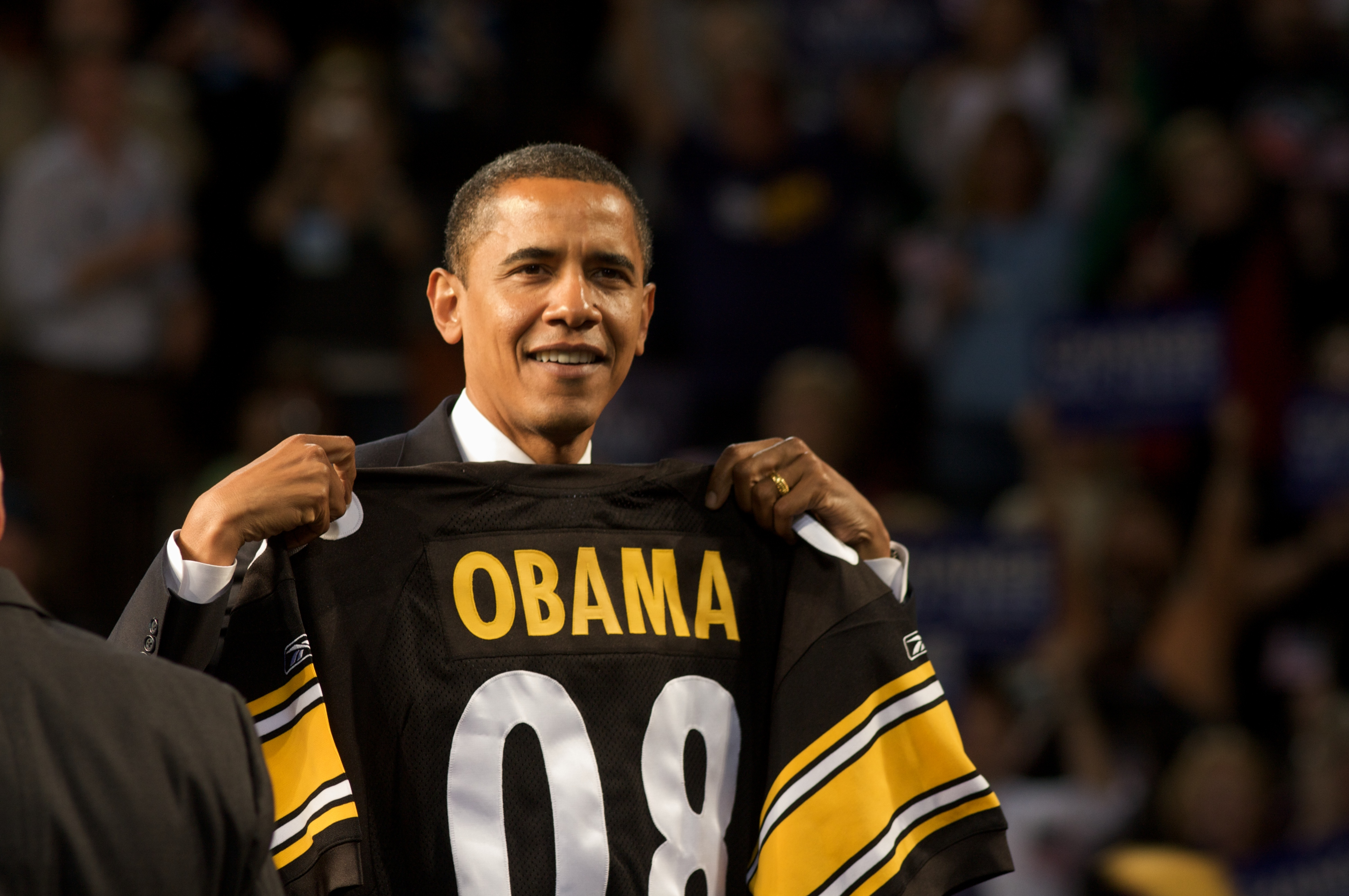 Barack Obama holding up a Pittsburgh Steelers jersey with his name